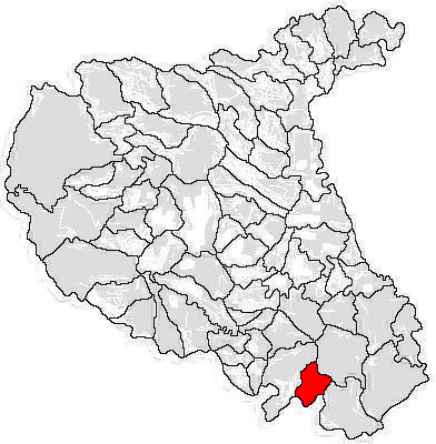 Limits of the Commune of Băleşti